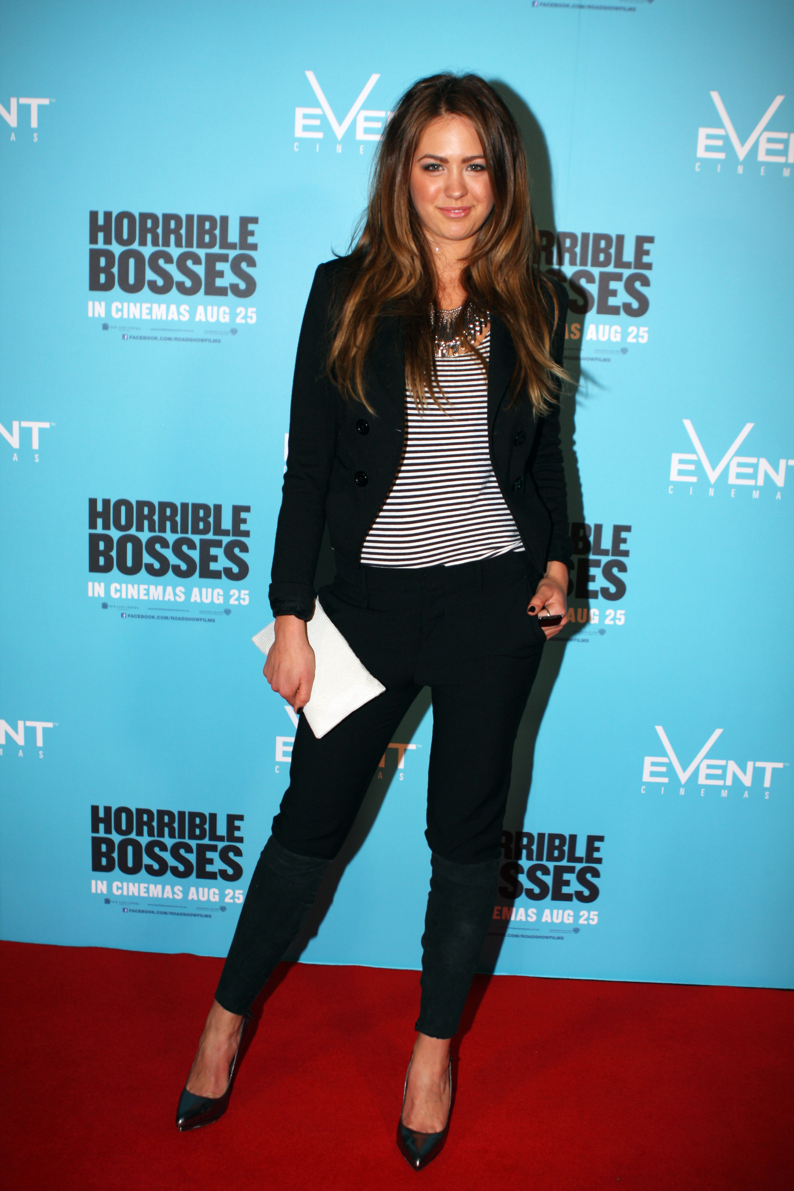 Model Jesinta Campbell, attending the Australian premiere of Horrible Bosses in August 2011.